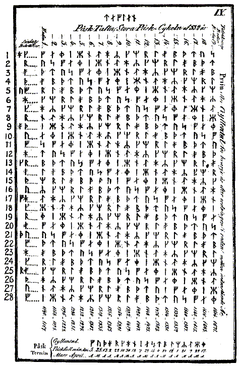 Computus table using Runic alphabet